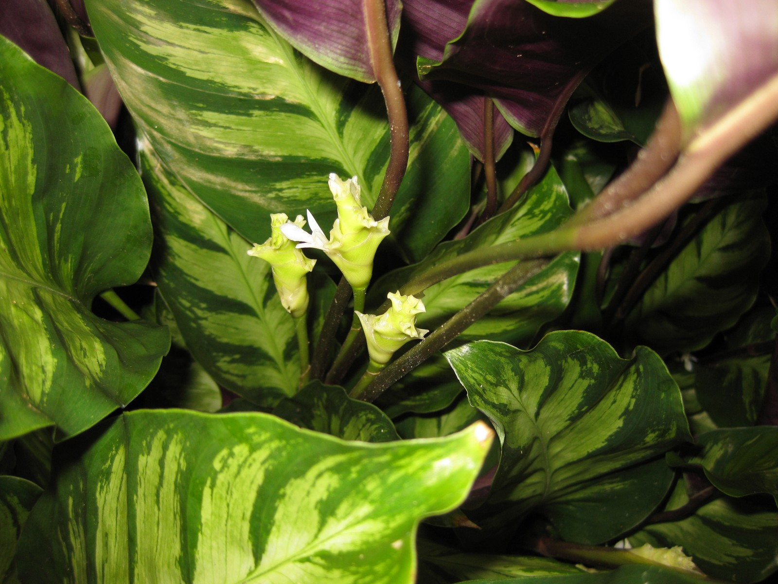 Photographed at the Royal Botanic Gardens Sydney (Australia) in December